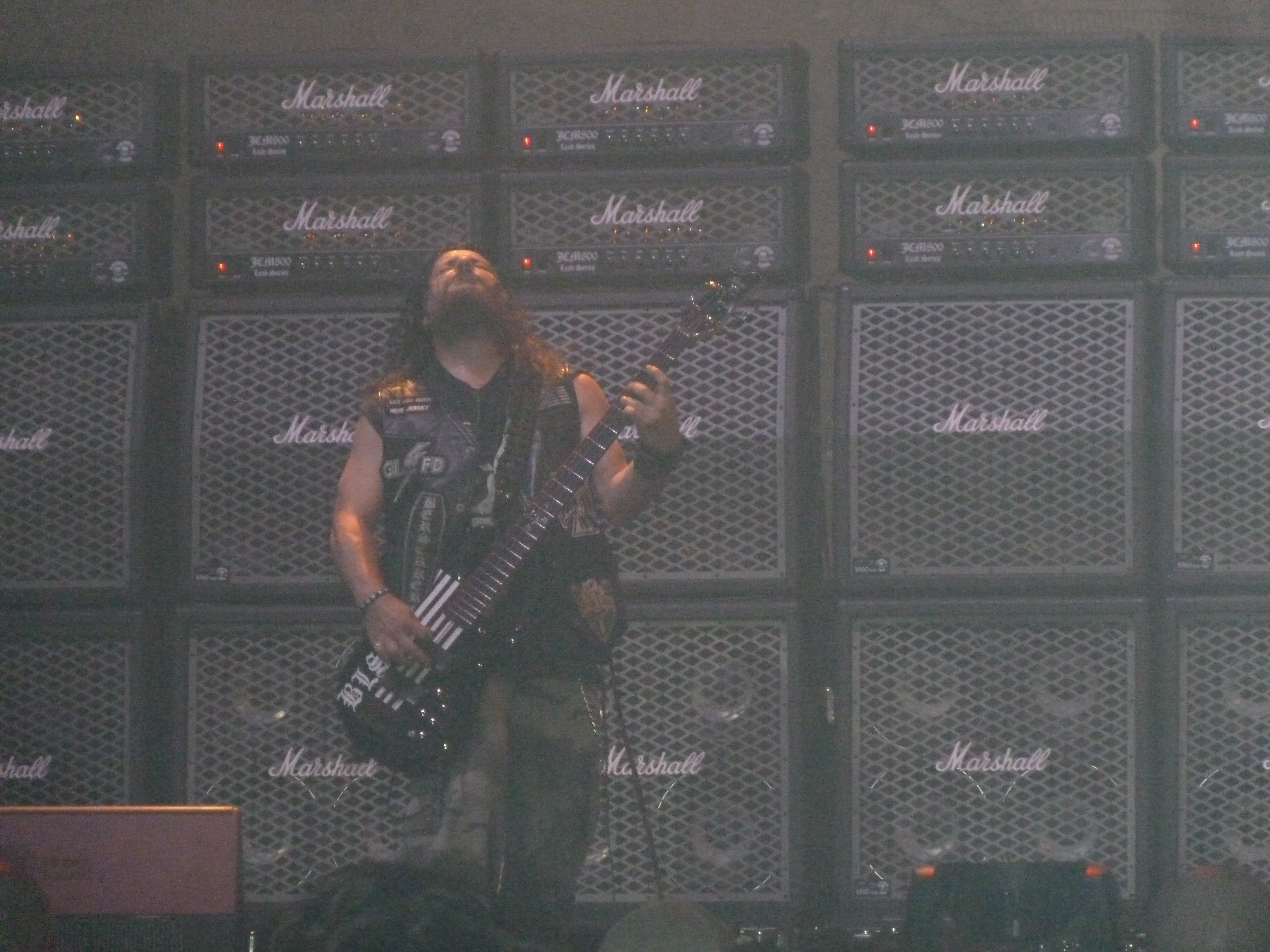 John DeServio performing with Black Label Society at Allen Event Center in Allen, Texas on October 16, 2011